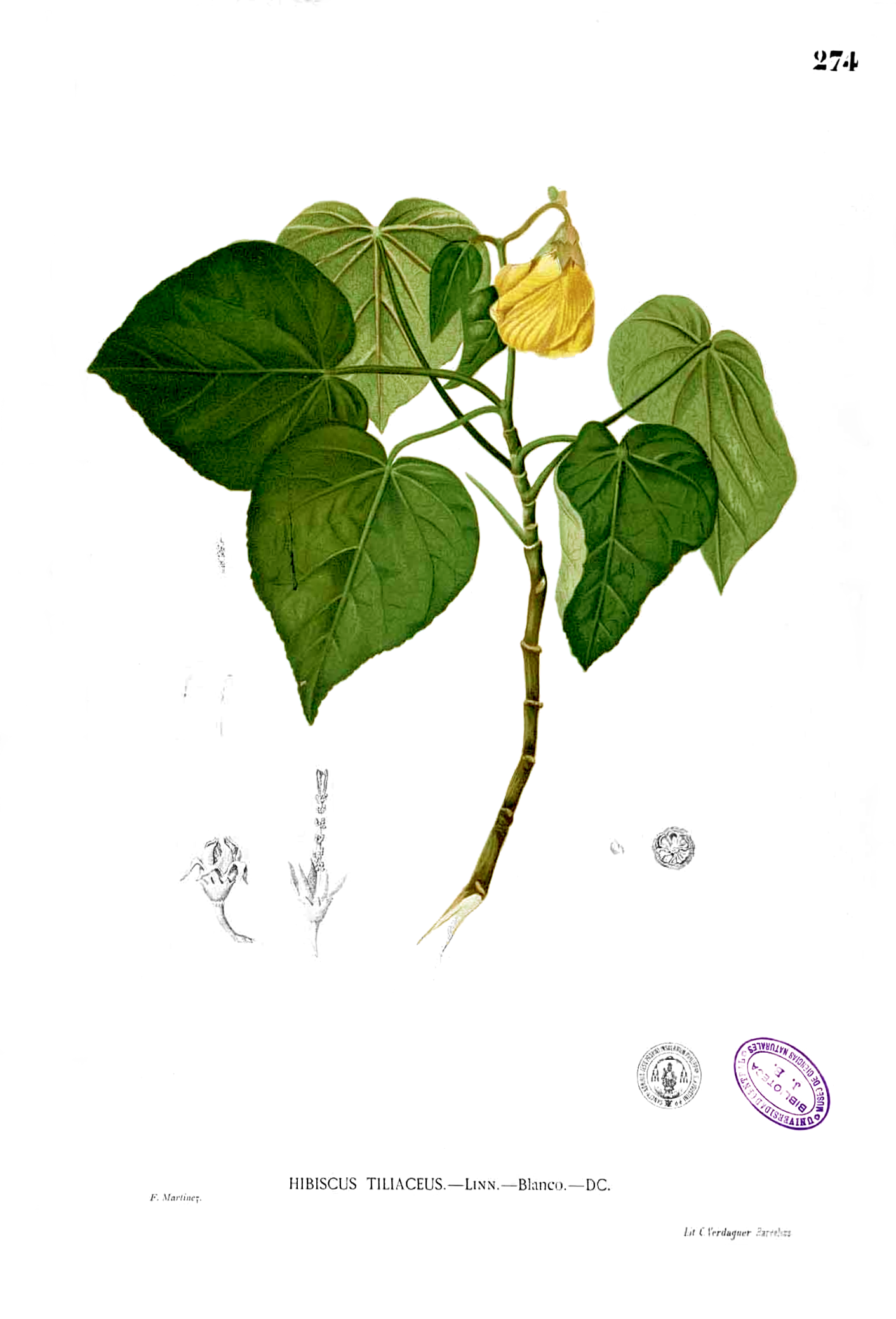 Plate from book